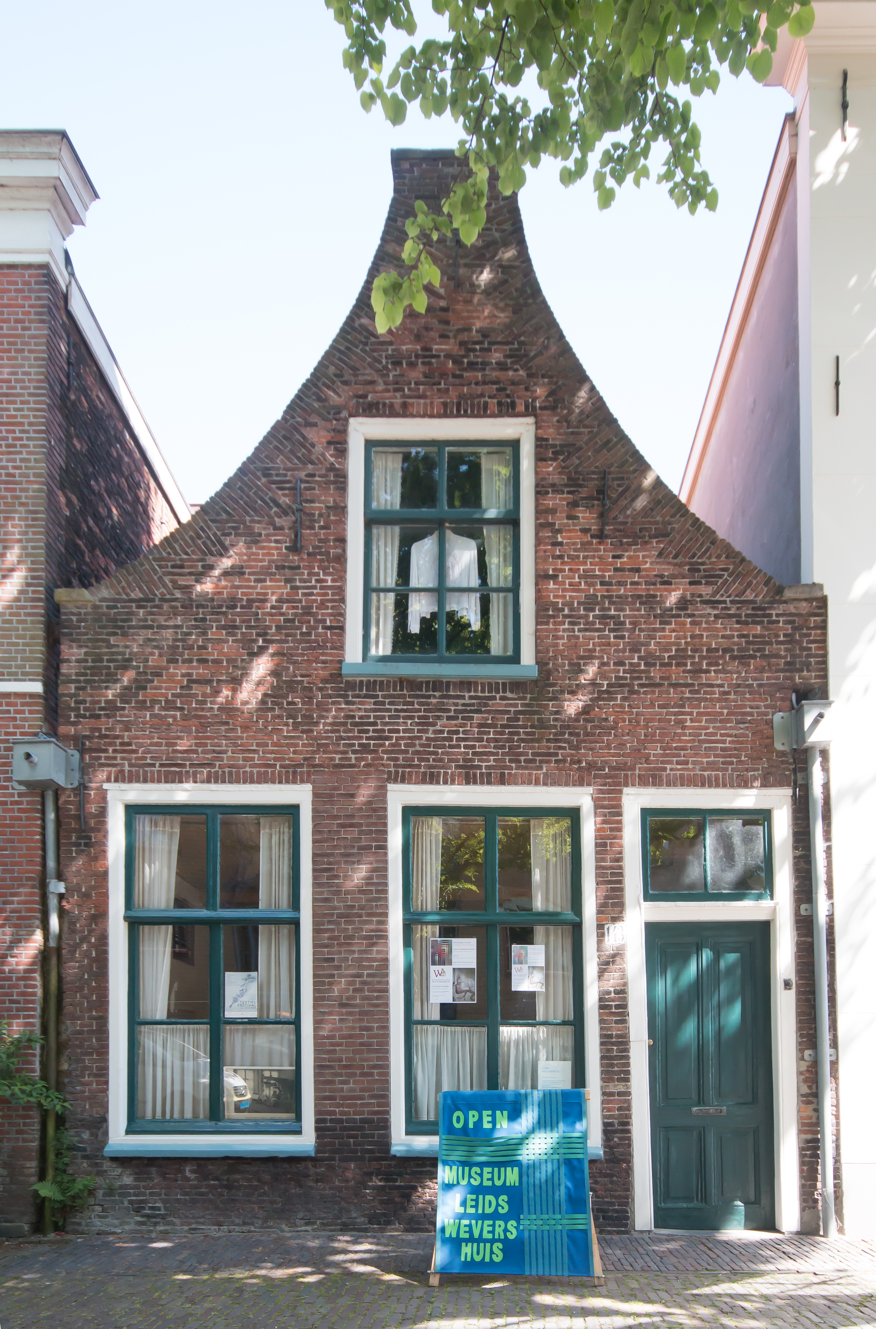 Museum Het Leids Wevershuis - Facade